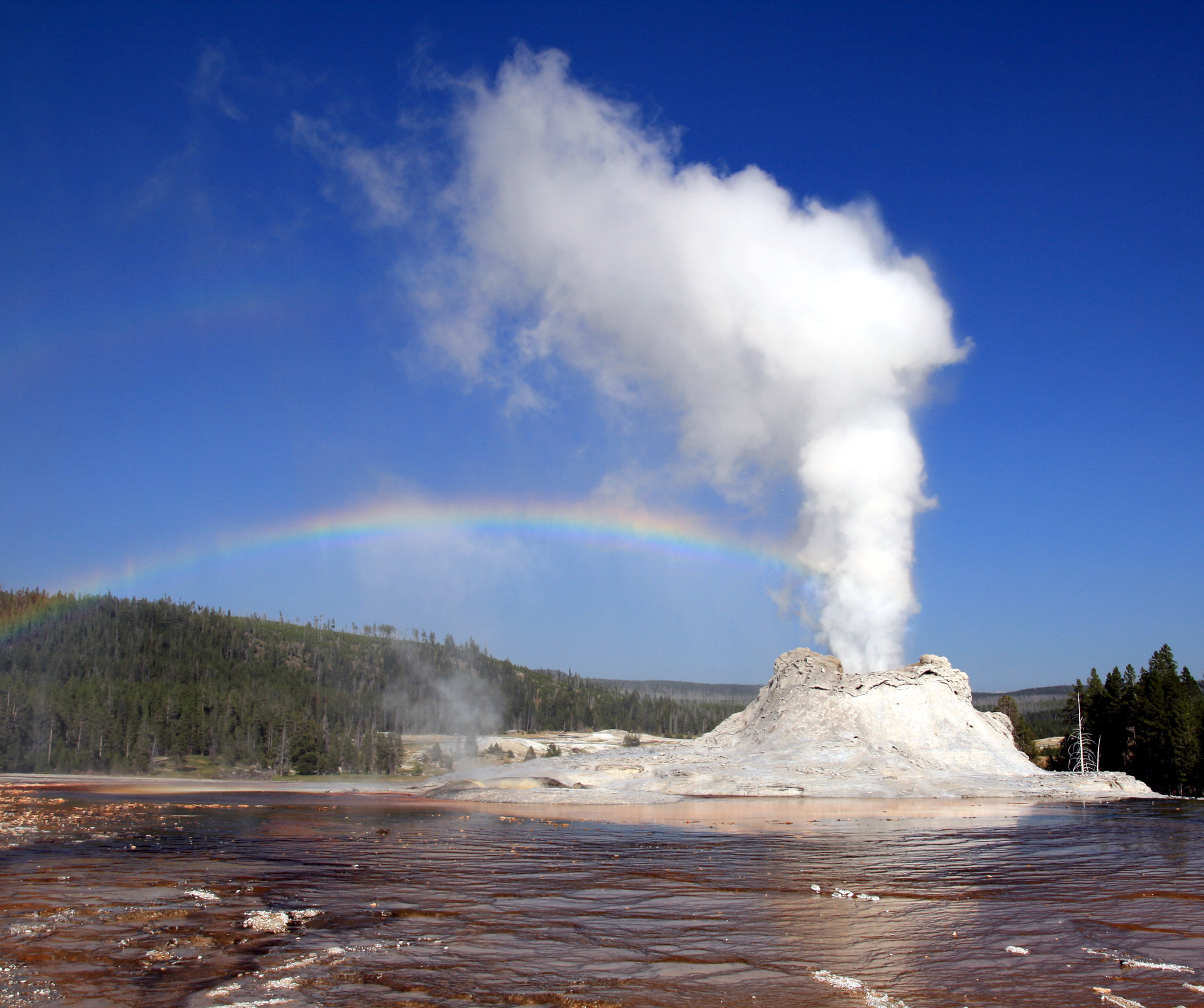 Steam phase eruption of Castle Geyser demonstrates primary and secondary rainbows and Alexander's band in Yellowstone National Park.